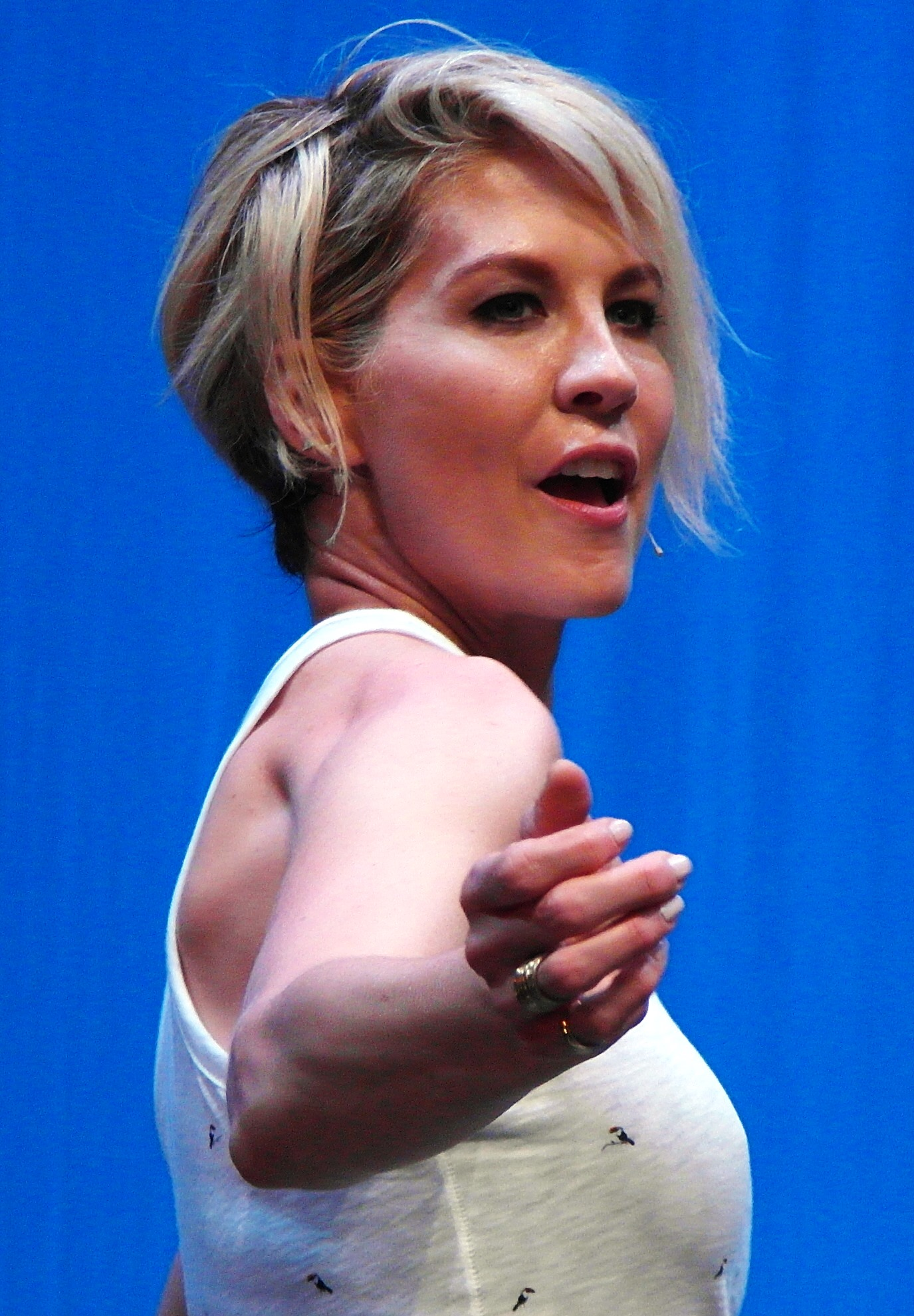 Jenna Elfman at National Dance Day 2014